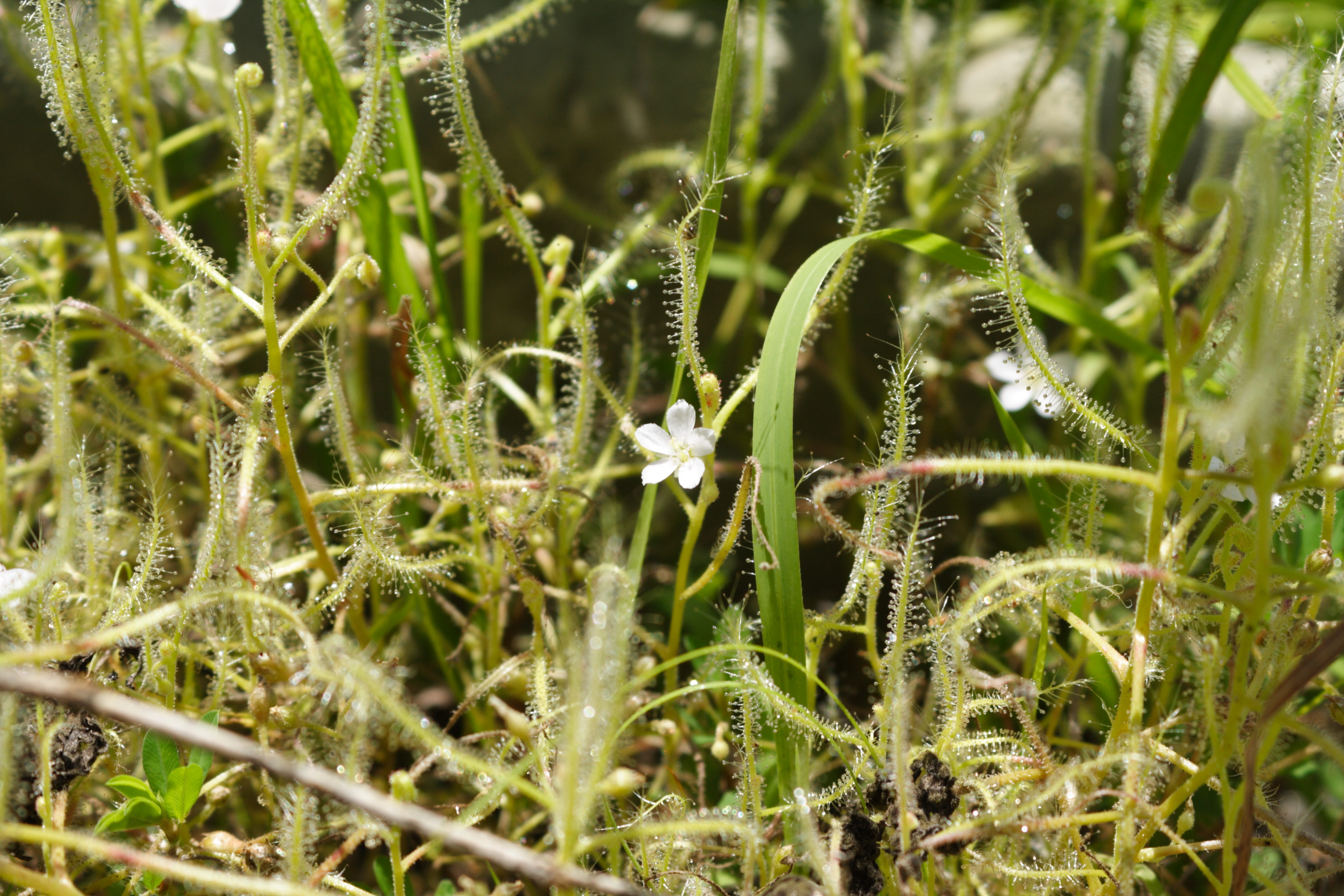 Habitat of Drosera indica at Amagadai General Park Hydrophyte Garden in Chosei,Chiba,Japan.